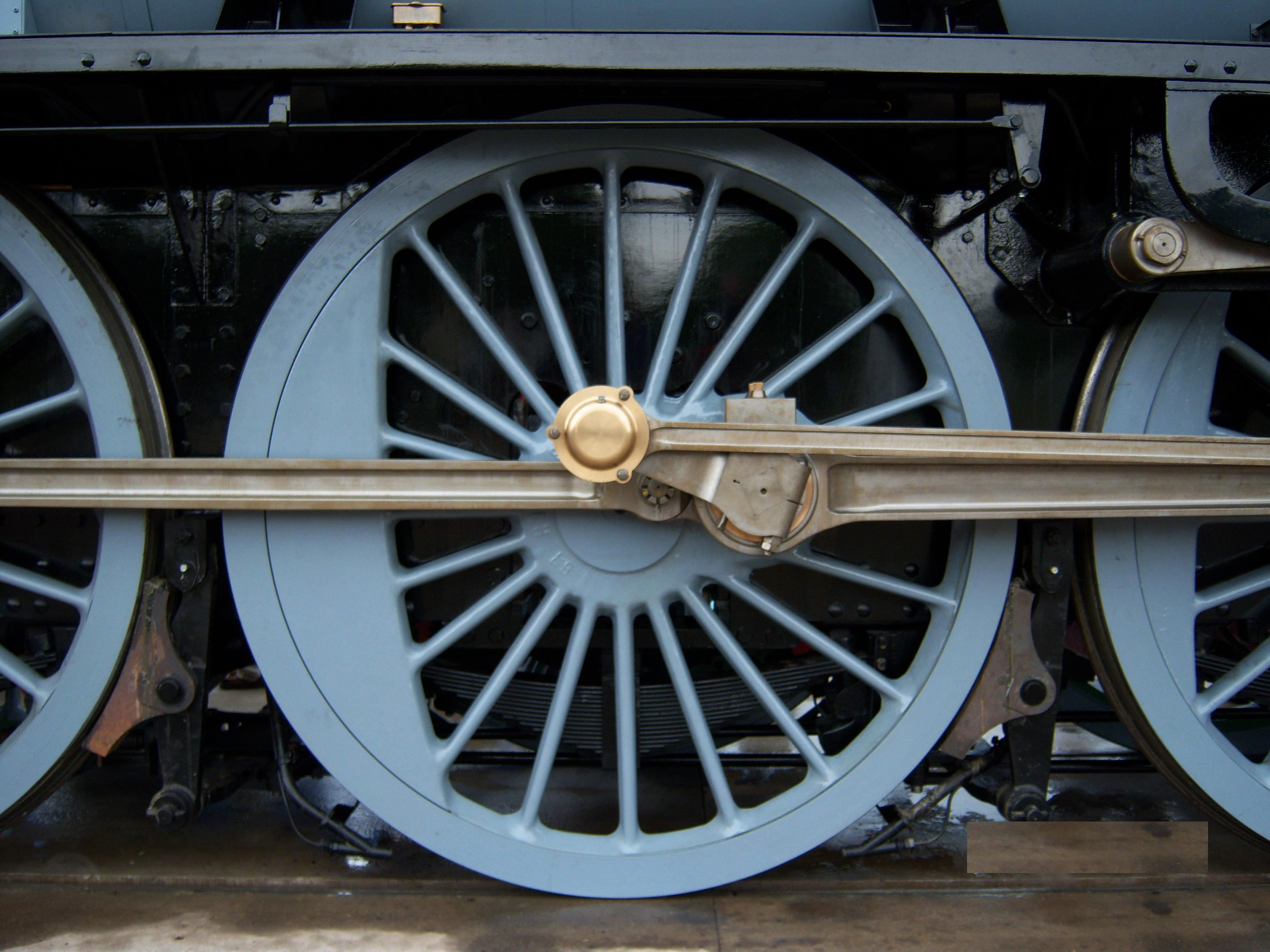 60163 Tornado wheel